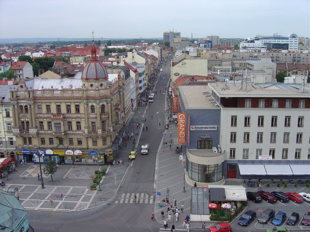 Green Tower in Pardubice - view on Trida Miru street